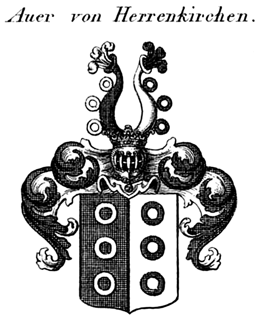 Coat of arms of Auer von Herrenkirchen